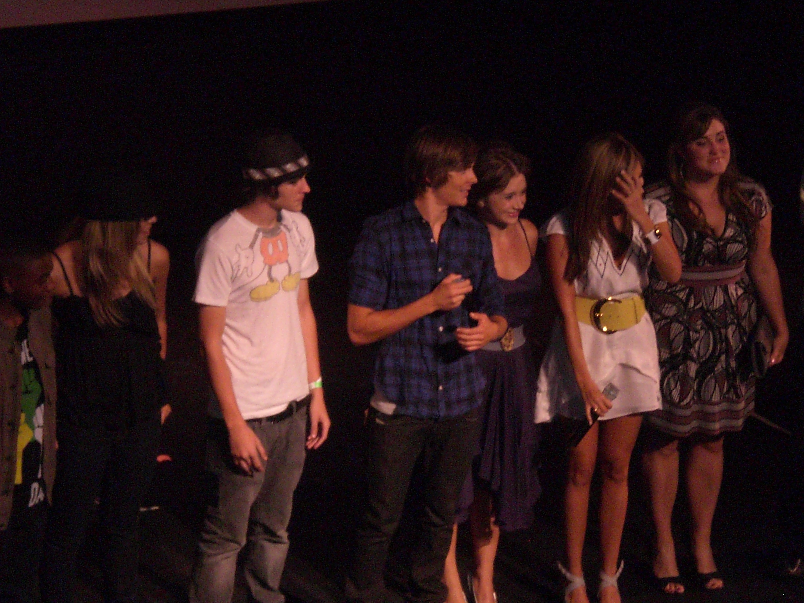 HSM 3 prep rally